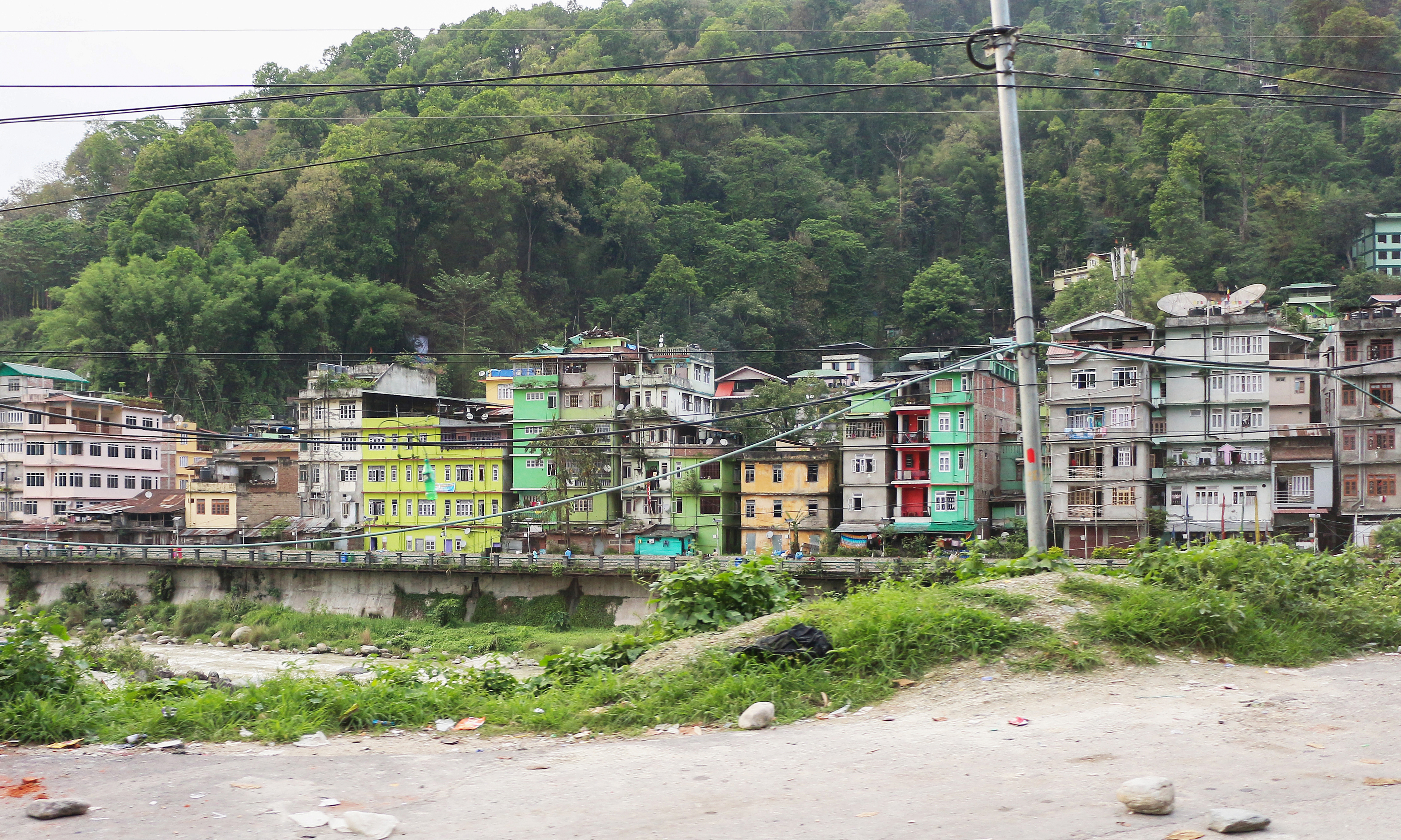 Singtam, East Sikkim, India